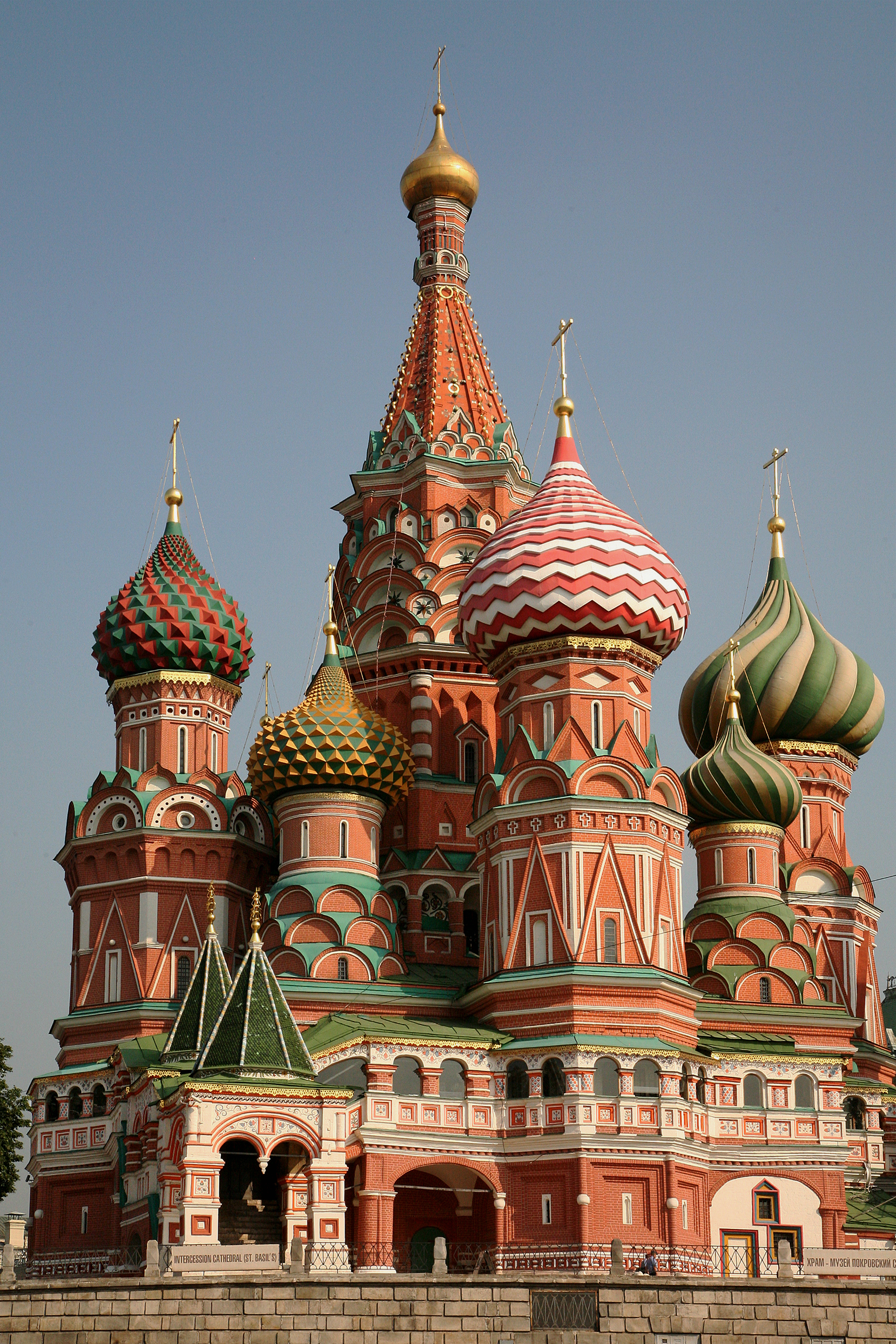 St. Basil's Cathedral in Moscow (Red Square). The Russian Orthodox church building in Byzantine architecture from the 16th century is now mostly used as a museum.